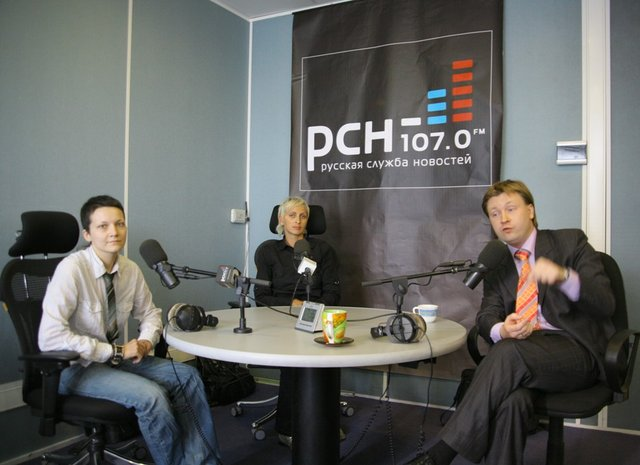 Photo taken August 26, 2009, in the studio of the Radio Russian News Service which organized a debate right after the hearing of the marriage case of Irina Fedotova-Fet and Irina Shipitko. The photo shows Nikolai Alekseev and Irina Fedotova-Fet and Irina Shipitko.